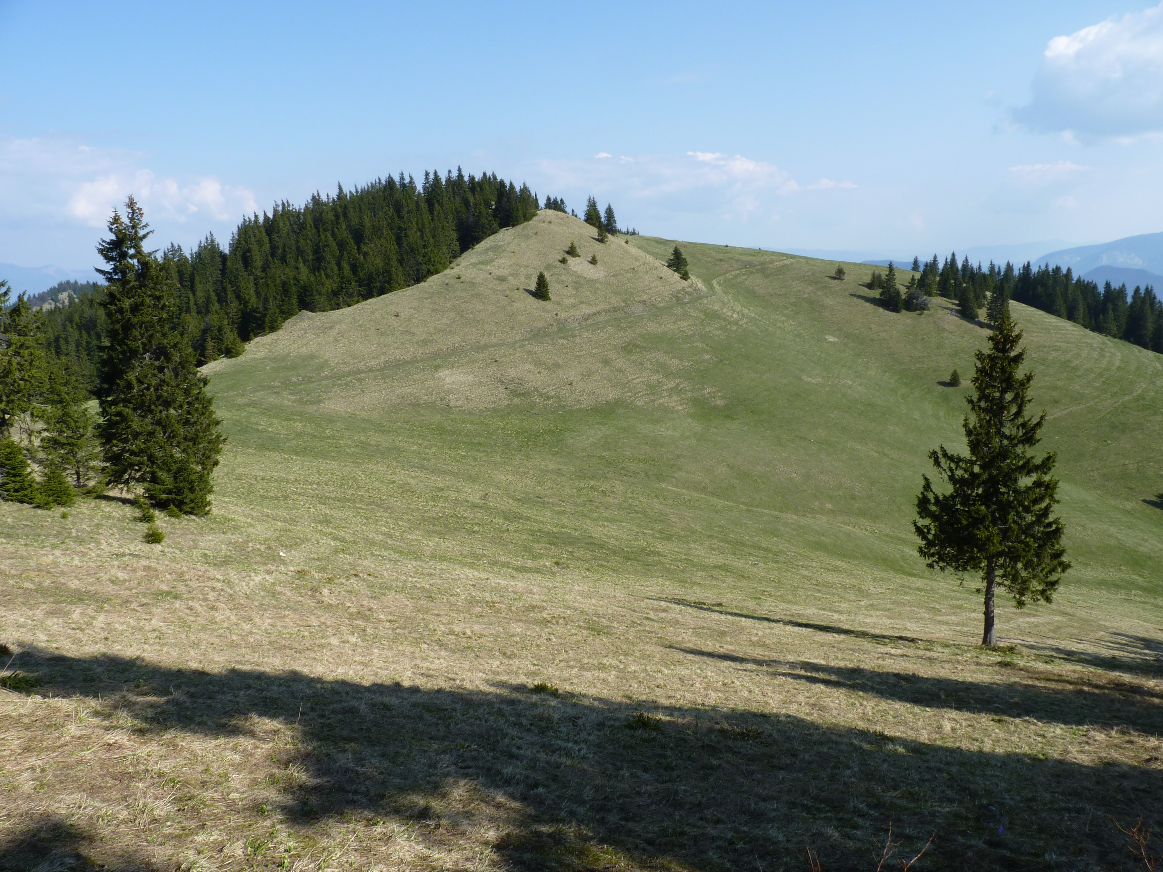 Great Fatra, Slovakia